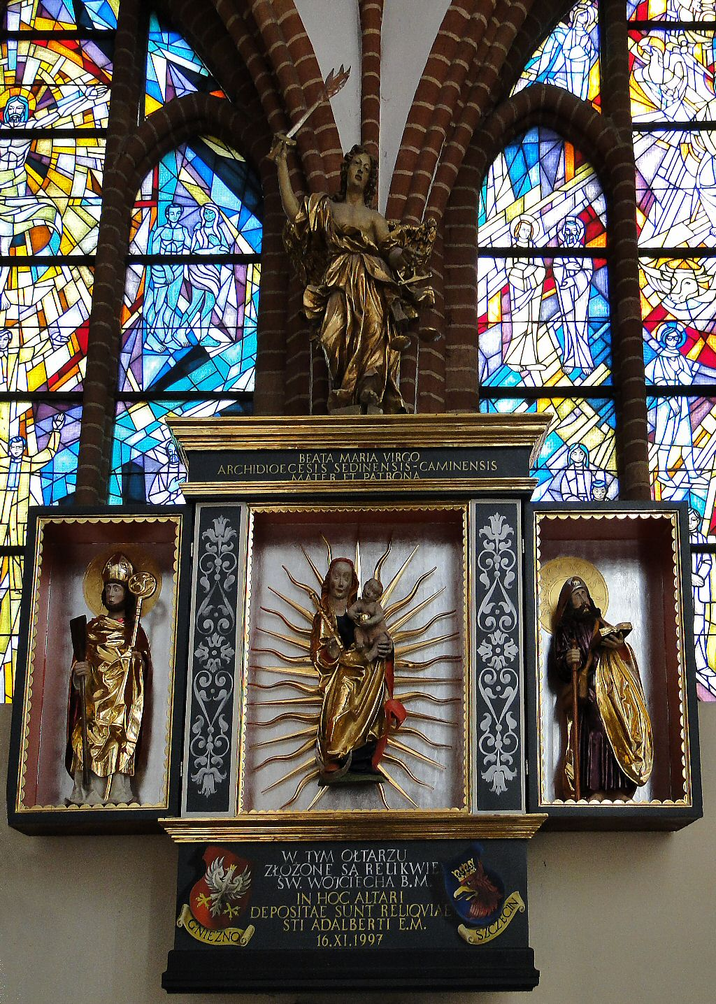 Interior of Szczecin Cathedral